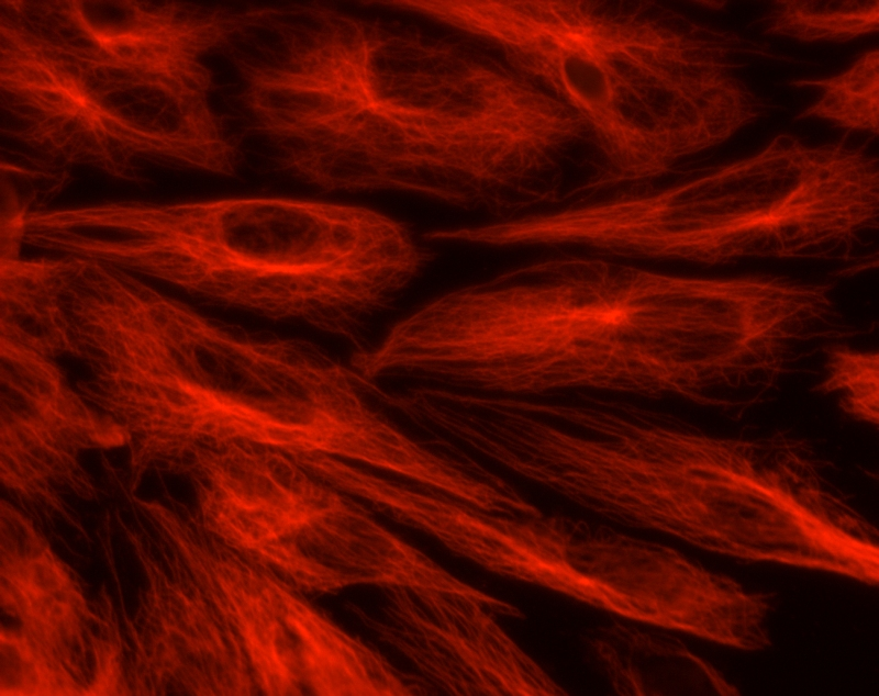 Tubulin alpha staining in endoth.cells